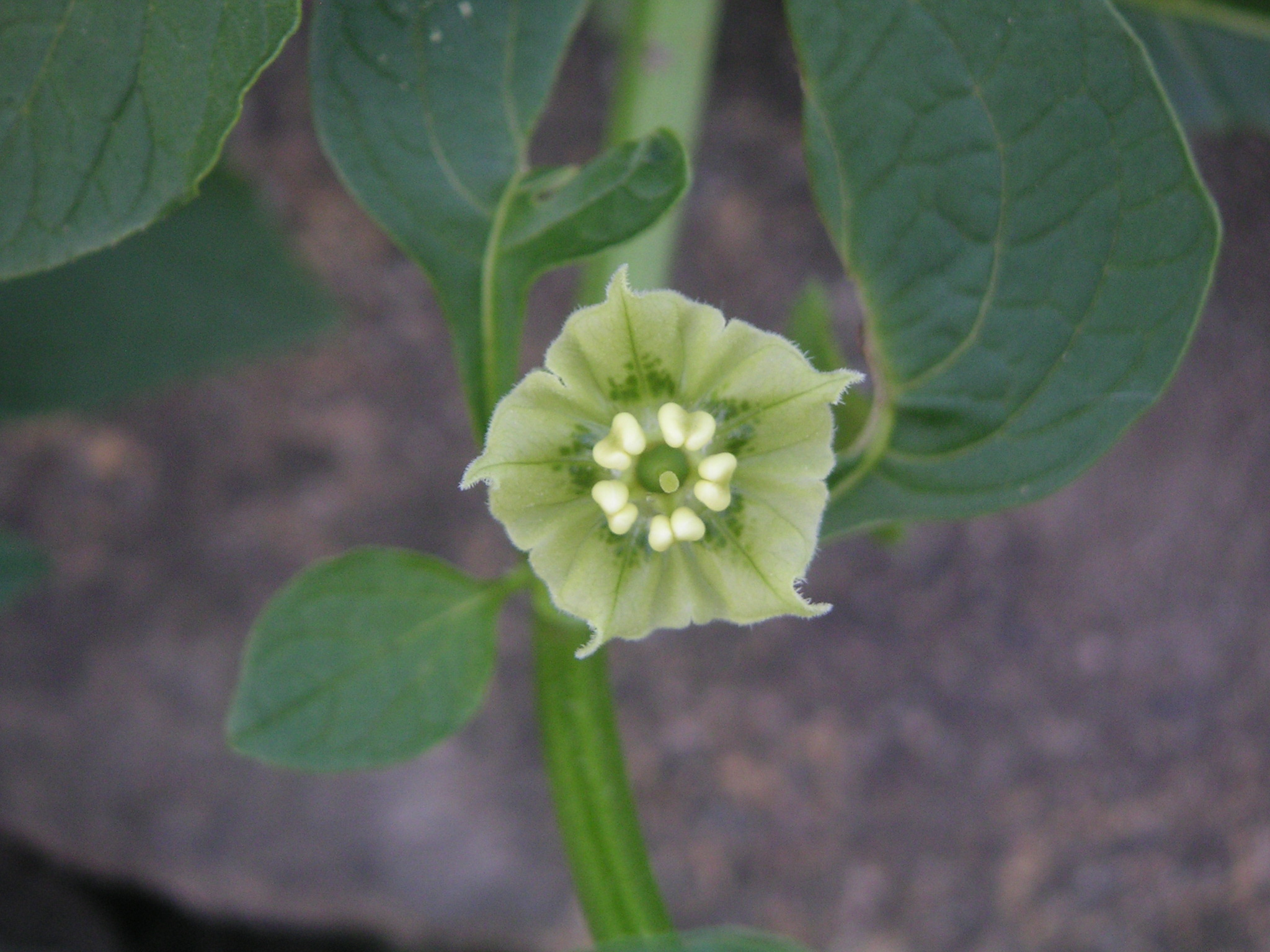 Flower of Jaltomata procumbens (as Saracha edulis) at Botanical Garden Krefeld, Germany.